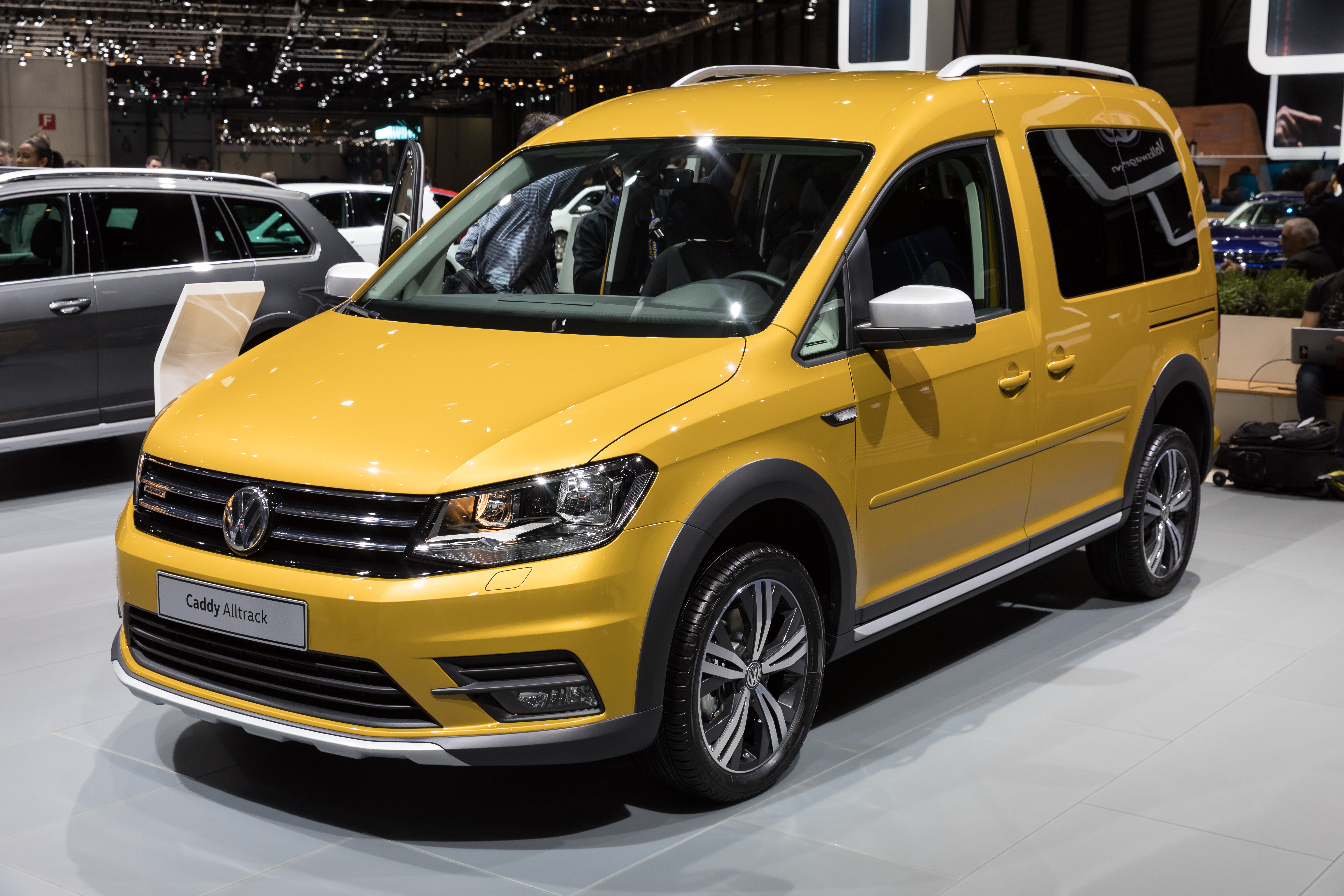 Geneva International Motor Show 2018